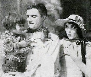 Jerry Madden, Tom Mix, and Carmelita Geraghty in The Last Trail (1927).